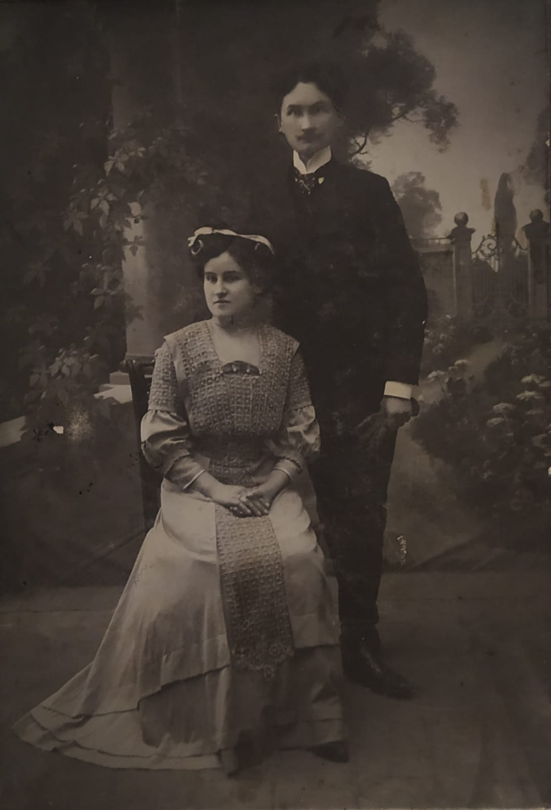 Vojislav Ilić Mlađi with his wife Jovanka. The photo can be found in the Society for Culture, Art and International Cooperation Adligat in Belgrade, Serbia. Српски (ћирилица): Војислав Илић Млађи са супругом Јованком Првановић. Фотографија се налази у Удружењу за културу, уметност и међународну сарадњу „Адлигат” у Београду.